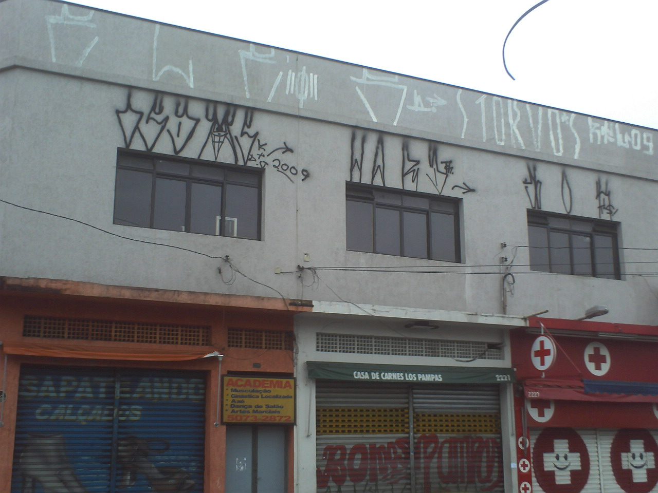 Pichação na Av. Miguel Estéfano, 2231 - Saúde, São Paulo.